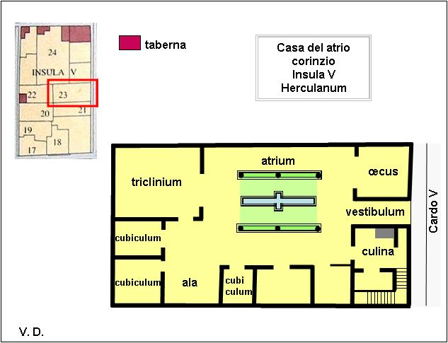 map of house with corinthian atrium - Insula V - Herculanum